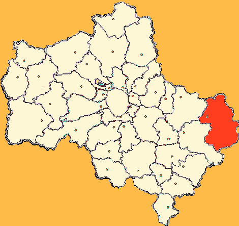 Moscow Region map by Al Silonov